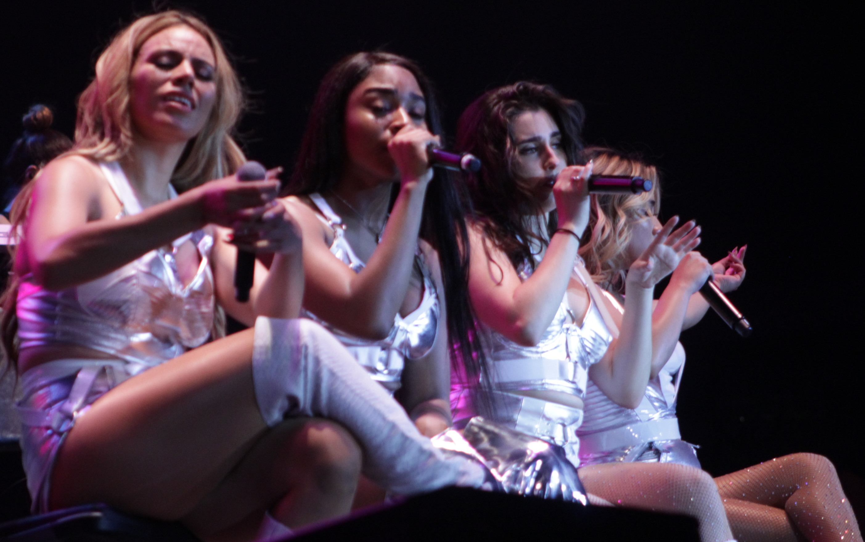 Fifth Harmony (Lauren Jauregui, Normani Kordei, Dinah Jane Hansen, Ally Brooke Hernandez) perform at the Los Angeles County Fair in Pomona, Ca. on Sep. 15, 2017. Taken by Dominique Redfearn